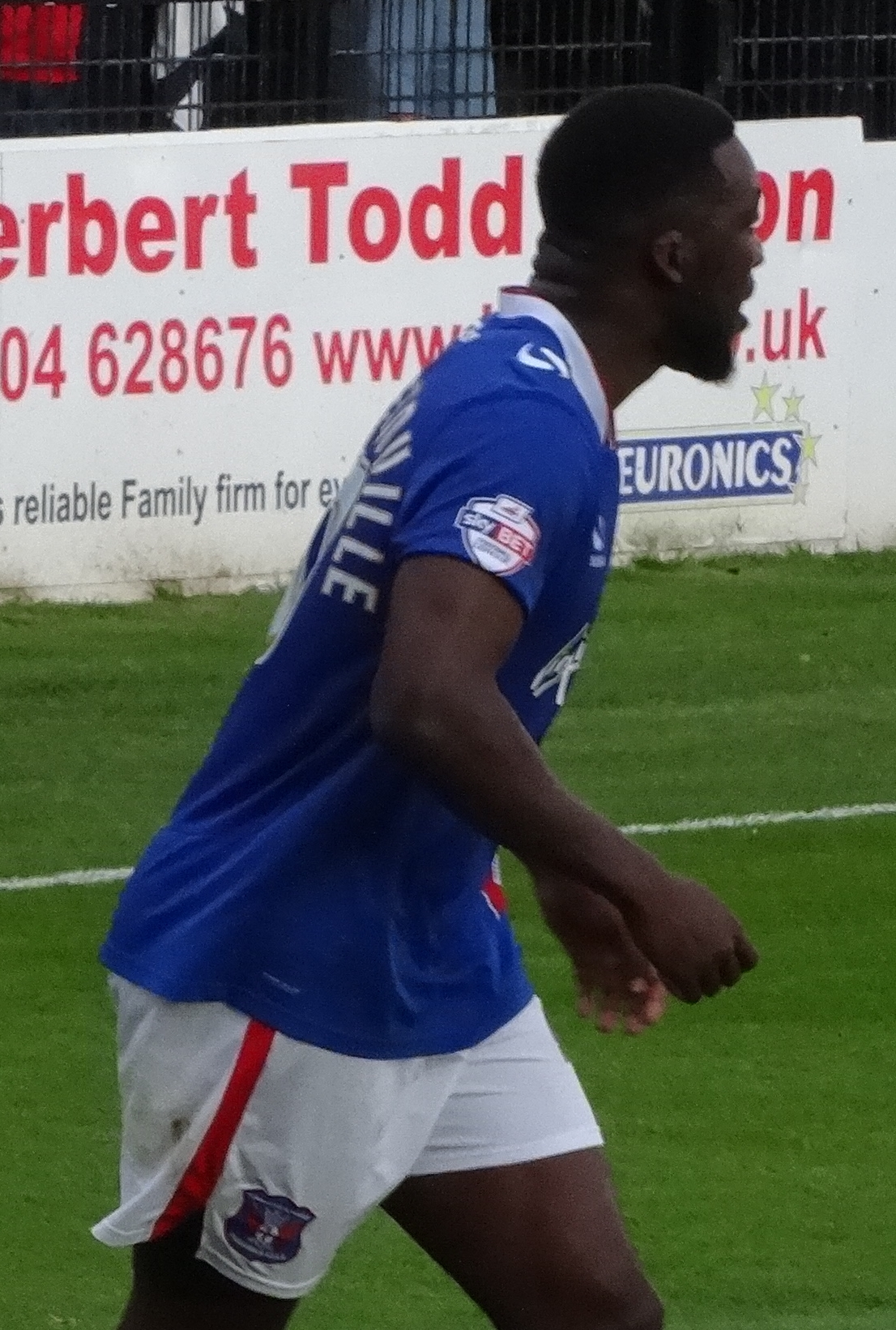 Troy Archibald-Henville playing for Carlisle United against York City at Bootham Crescent, York on 19 September 2015